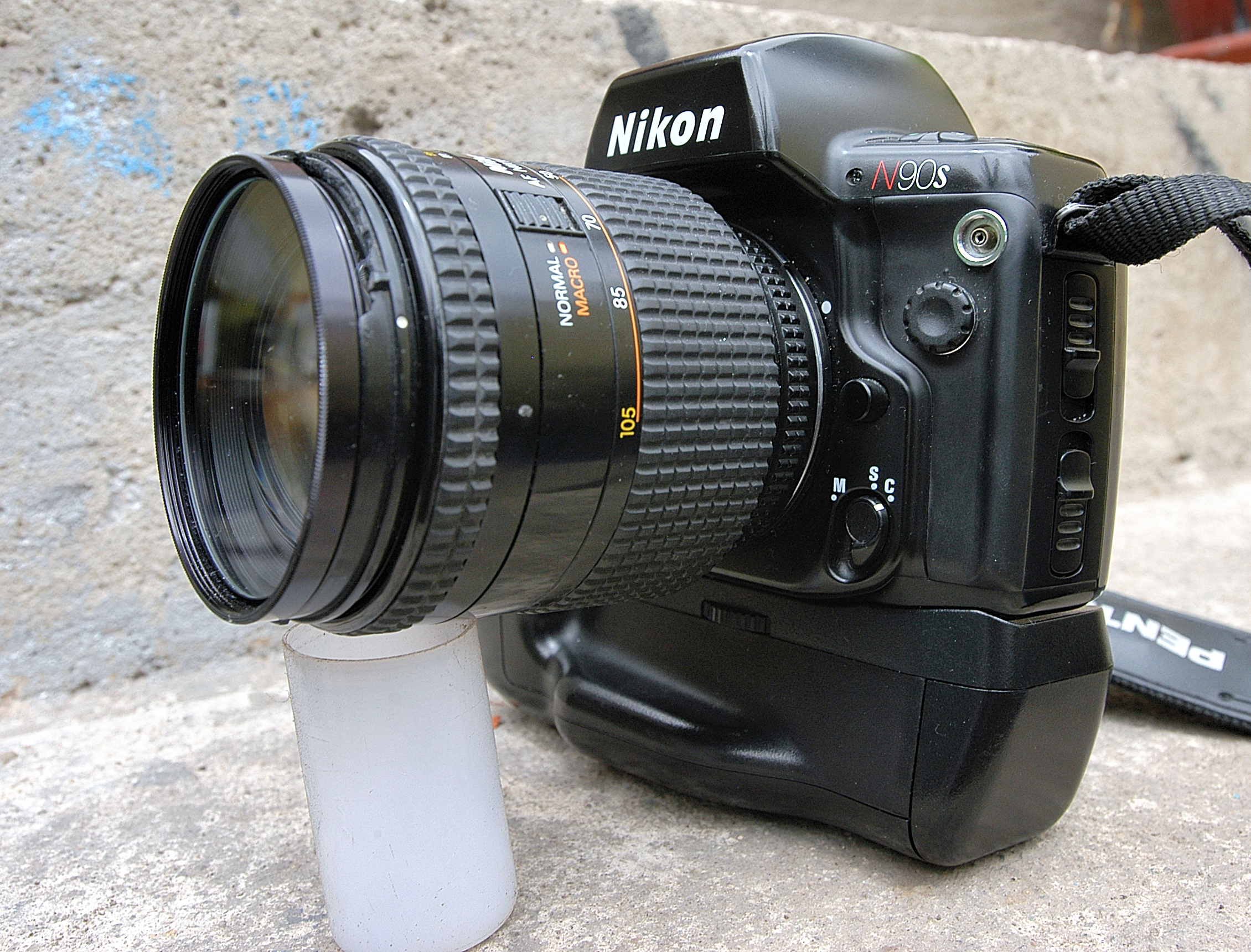 Nikon N90s and MB10 winder attached, lens Nikkor 28-105